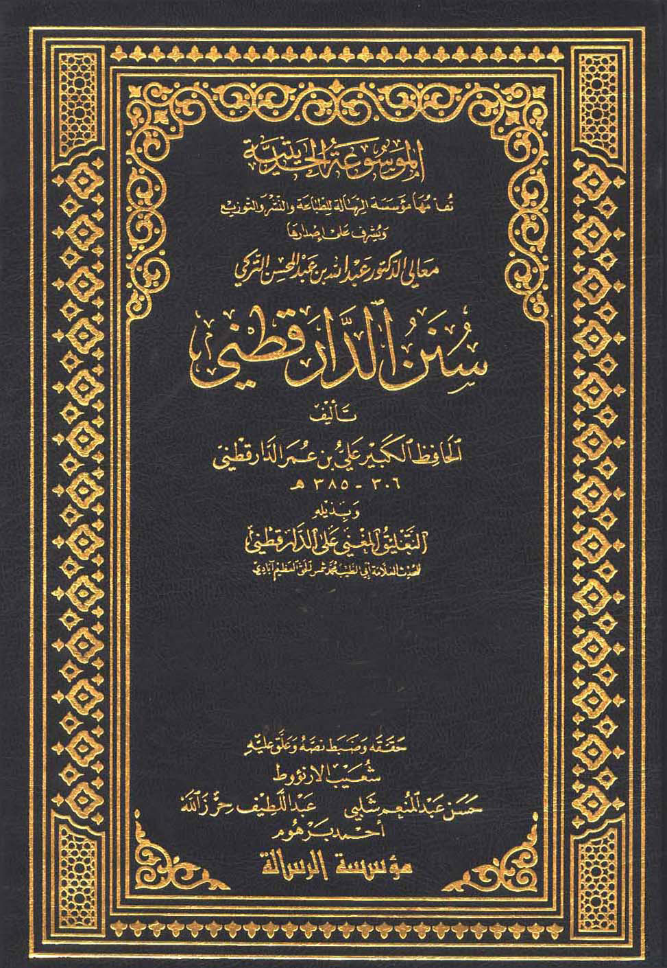 سنن الدارقطني